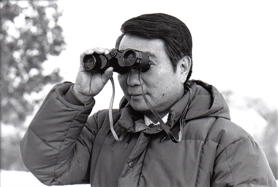 Photograph of a man holding binoculars